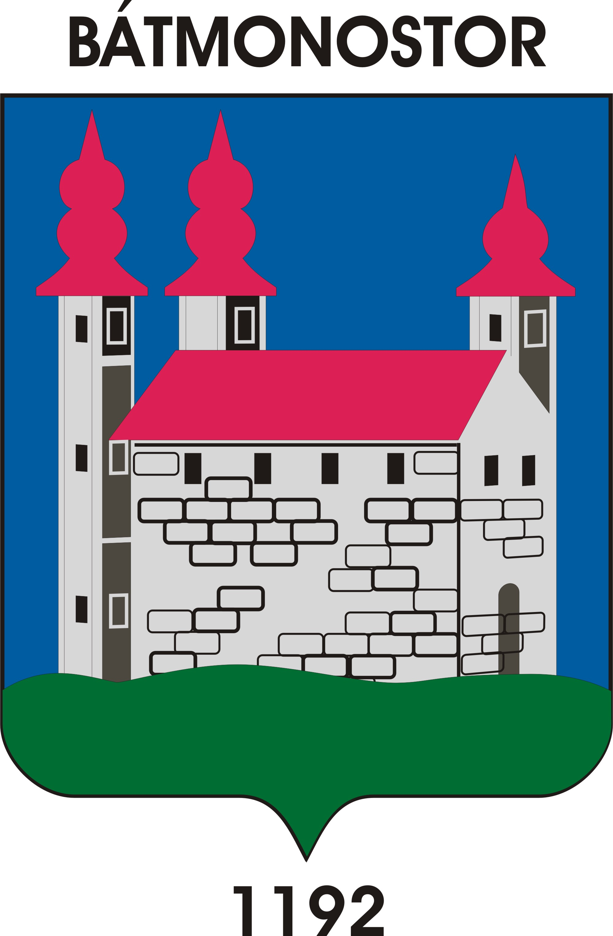 Coat of arms of Bátmonostor, Hungary